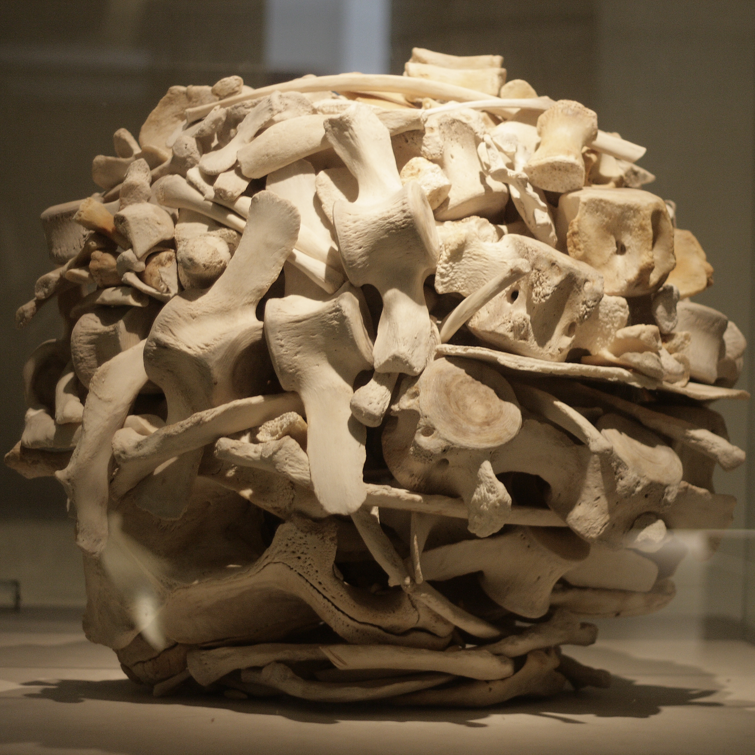 See where this picture was taken. [?]